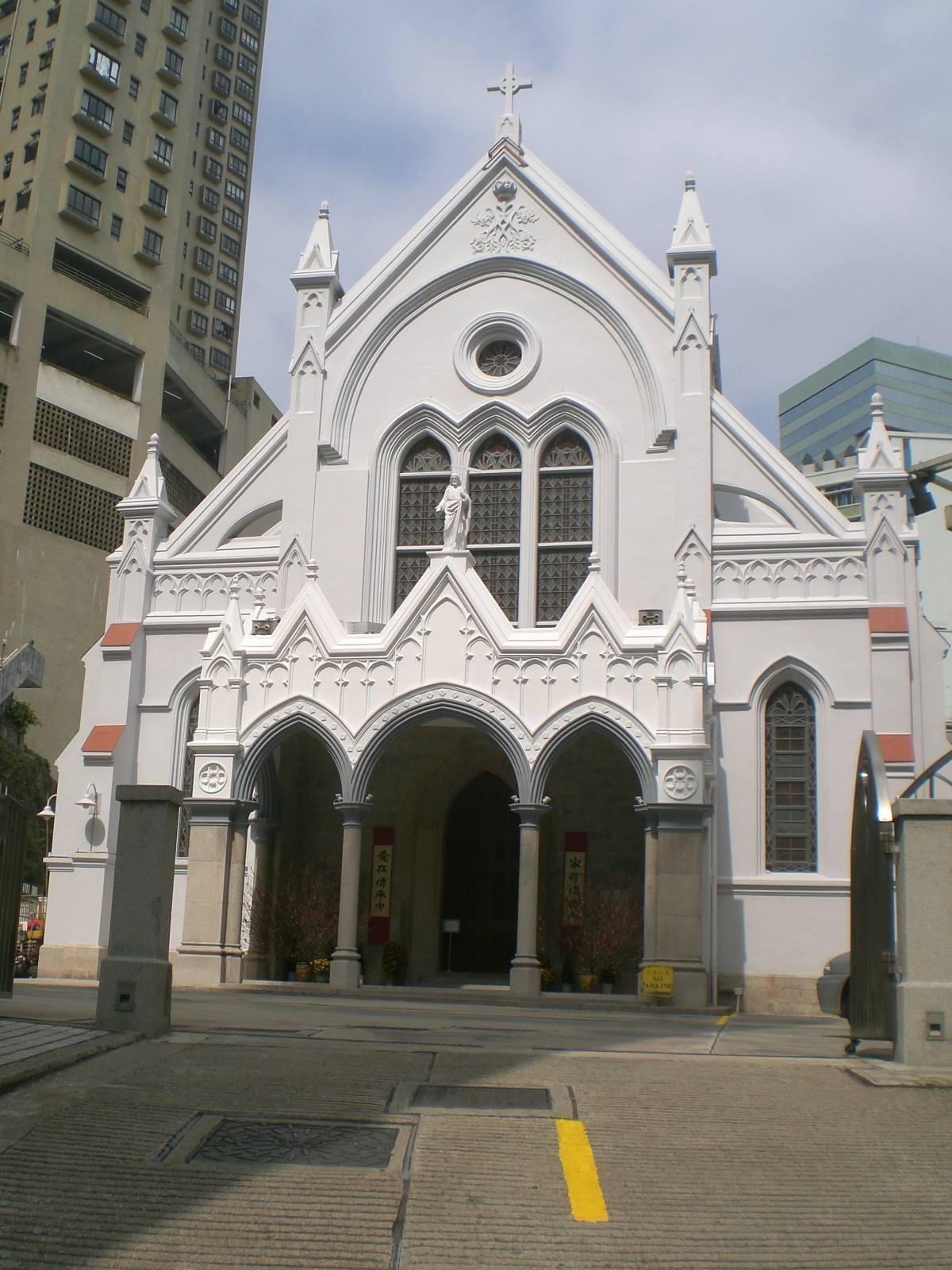 Description= 堅道香港聖母無原罪主教座堂 Immaculate Conception Cathedral of Hong KongCaine Road Hong Kong Source= self-made Author= JackieCheu